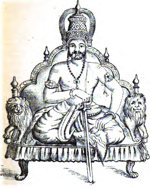 Illustration of Emperor Yayathi